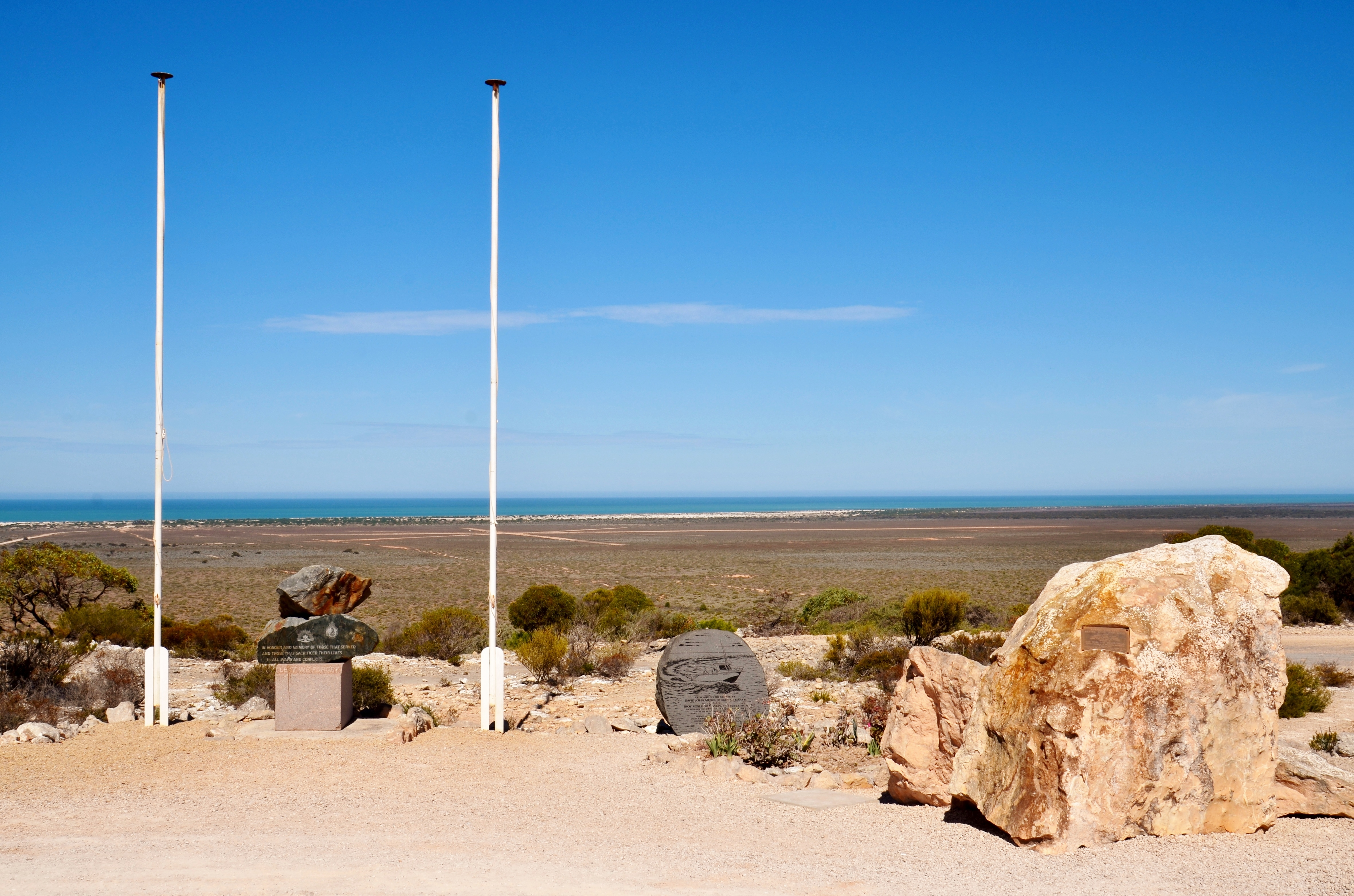 The war memorial at the top of the escarpment at Eucla, Western Australia. In the background are Eucla Airport and, further back, the Great Australian Bight.